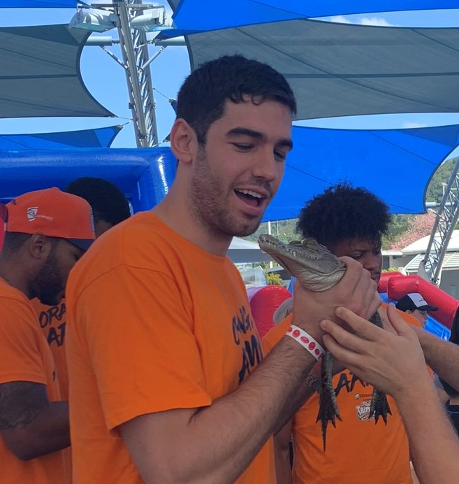 Cropped photo of Fabijan Krslovic